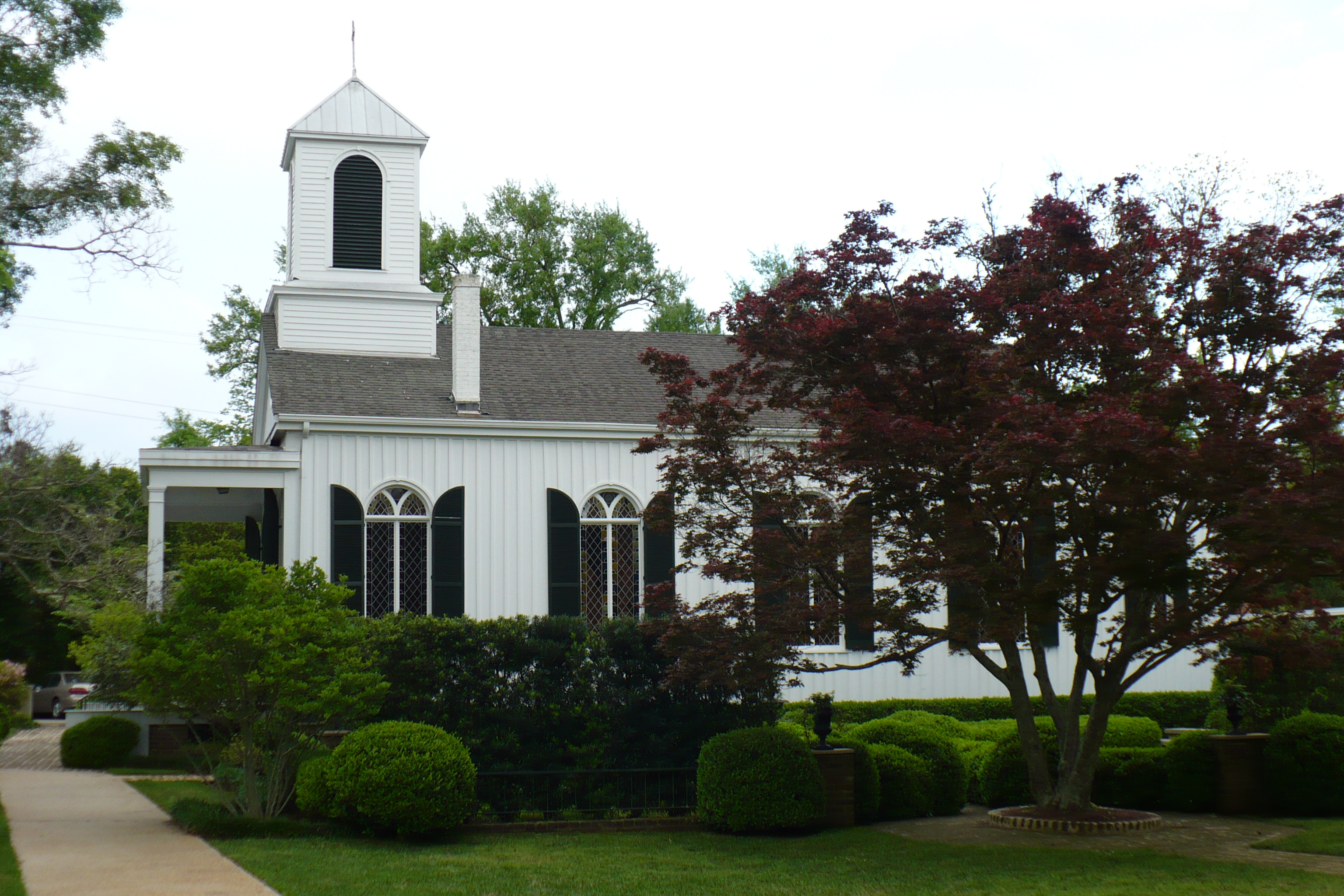 Saint Paul's Episcopal Chapel (c. 1859) at 4051 Old Shell Road in Mobile, Alabama.